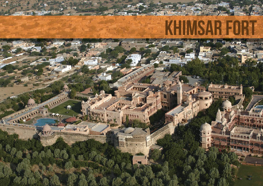 The place in the picture shows the Khimsar Fort. It is the venue for the Musical event, Music In the Hills.